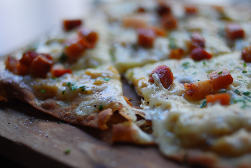 Their famous tart, with caramelized onion, cheese, and bacon chunks.. A must-try.